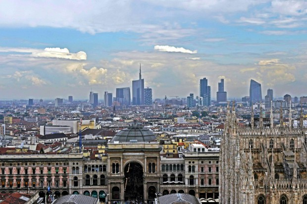 Milan's skyline.